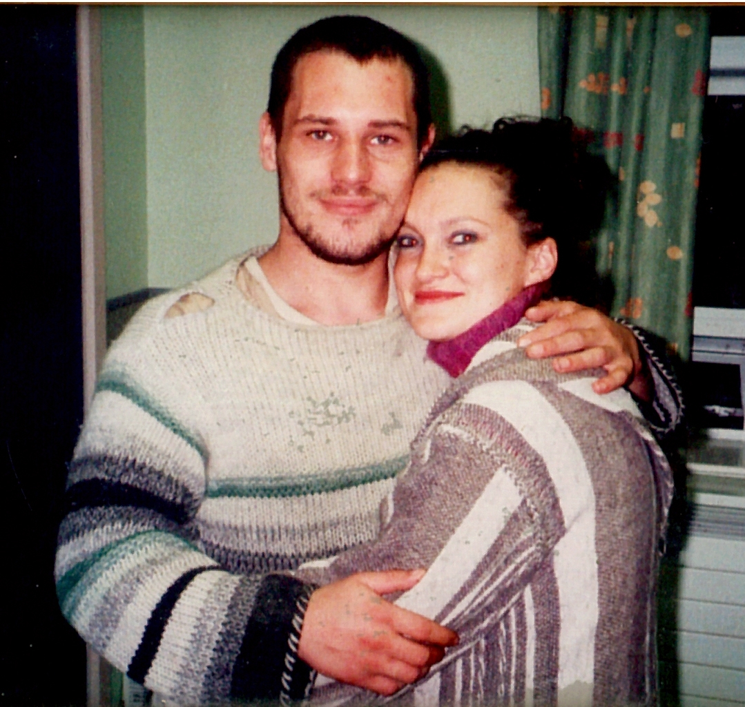 The campaign 'The Incarceration of John' was created to highlight the inadequate and damaging response of chemicals and incarceration that John Hunt got to his emotional distress and psychosocial problems. It highlights the gap in the services and the human rights violations that people diagnosed with a mental health disorder experience. It challenges the concept of mental health disorder and psychiatric power.